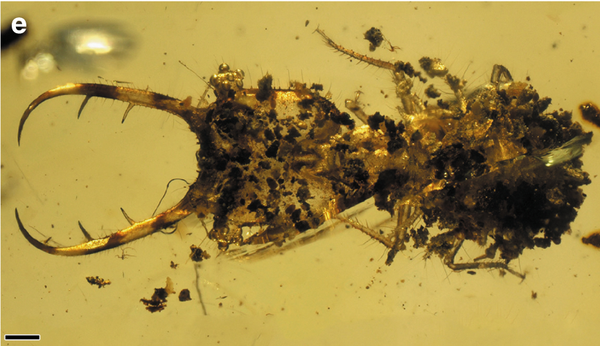 Diversity of the larvae of Myrmeleontiformia in mid-Cretaceous Burmese amber. E) Diodontognathus papillatus gen. et sp. nov., holotype. Scale bar: 0.5 mm